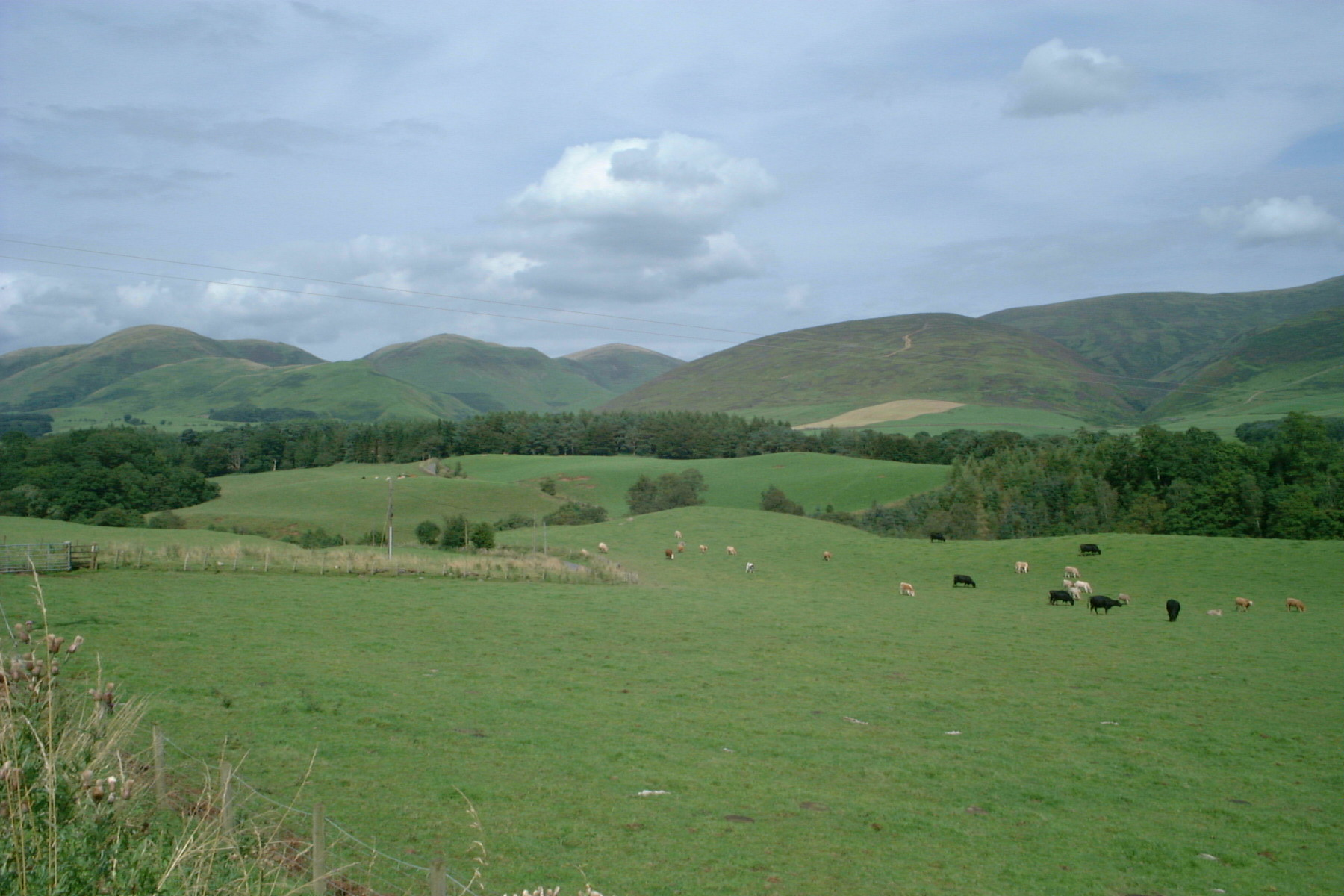 Landscape somewhere in the Southern Uplands in Scotland. Own photo.